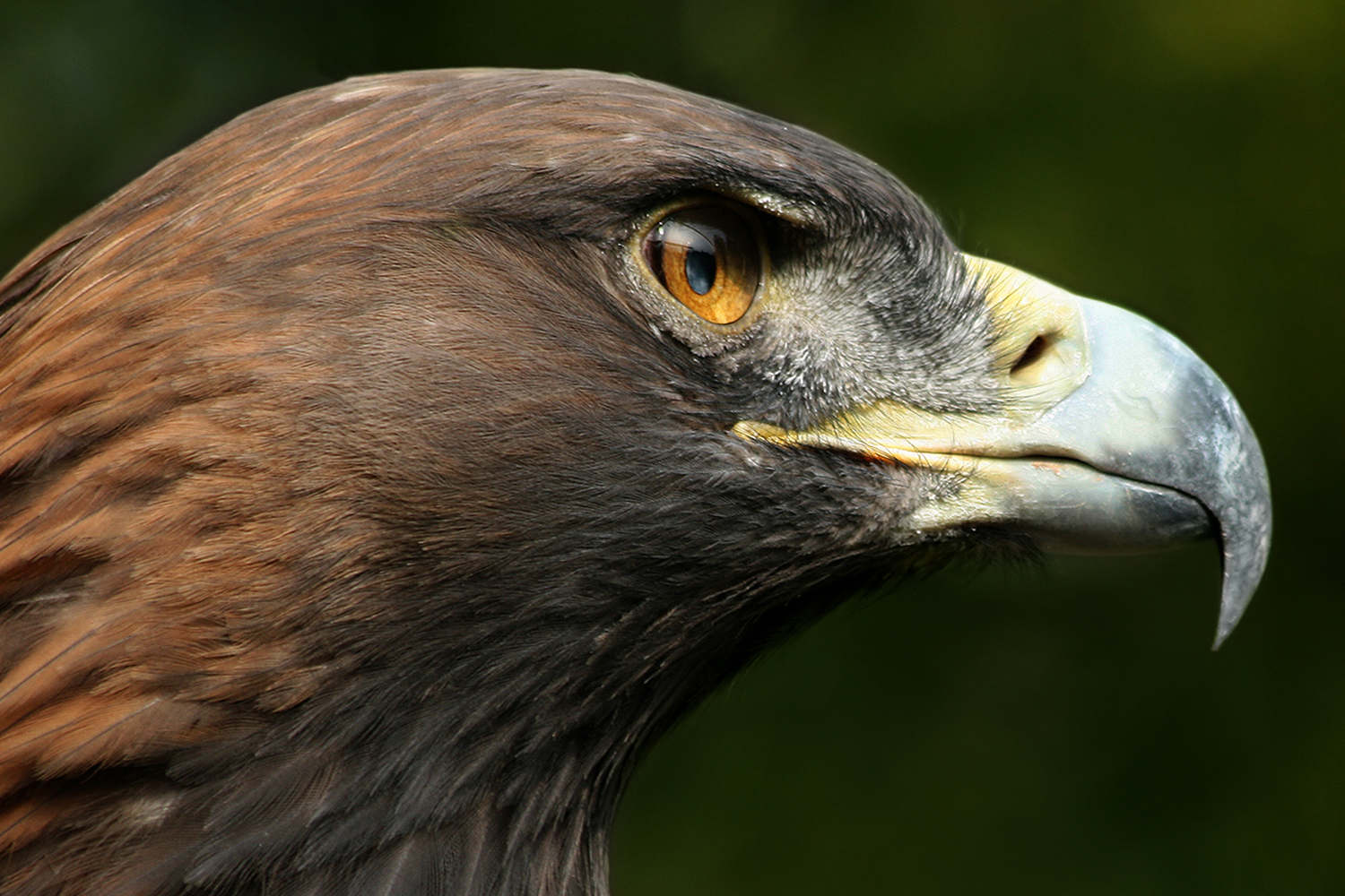 The Golden Eagle Aquila chrysaetos is one of the best known birds of prey in the Northern Hemisphere. Like all eagles, it belongs to the family Accipitridae.